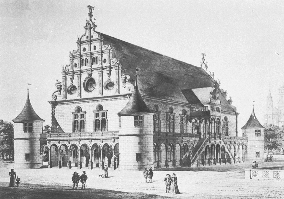 Side view of the facade, Neues Lusthaus (Ducal pleasure house) in Stuttgart, built 1584 by Georg Beer (Pen-and-ink drawing)